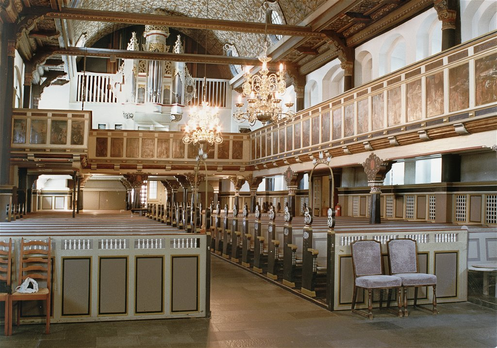 Church St. Nikolai, interior to the west, Elmshorn, Germany